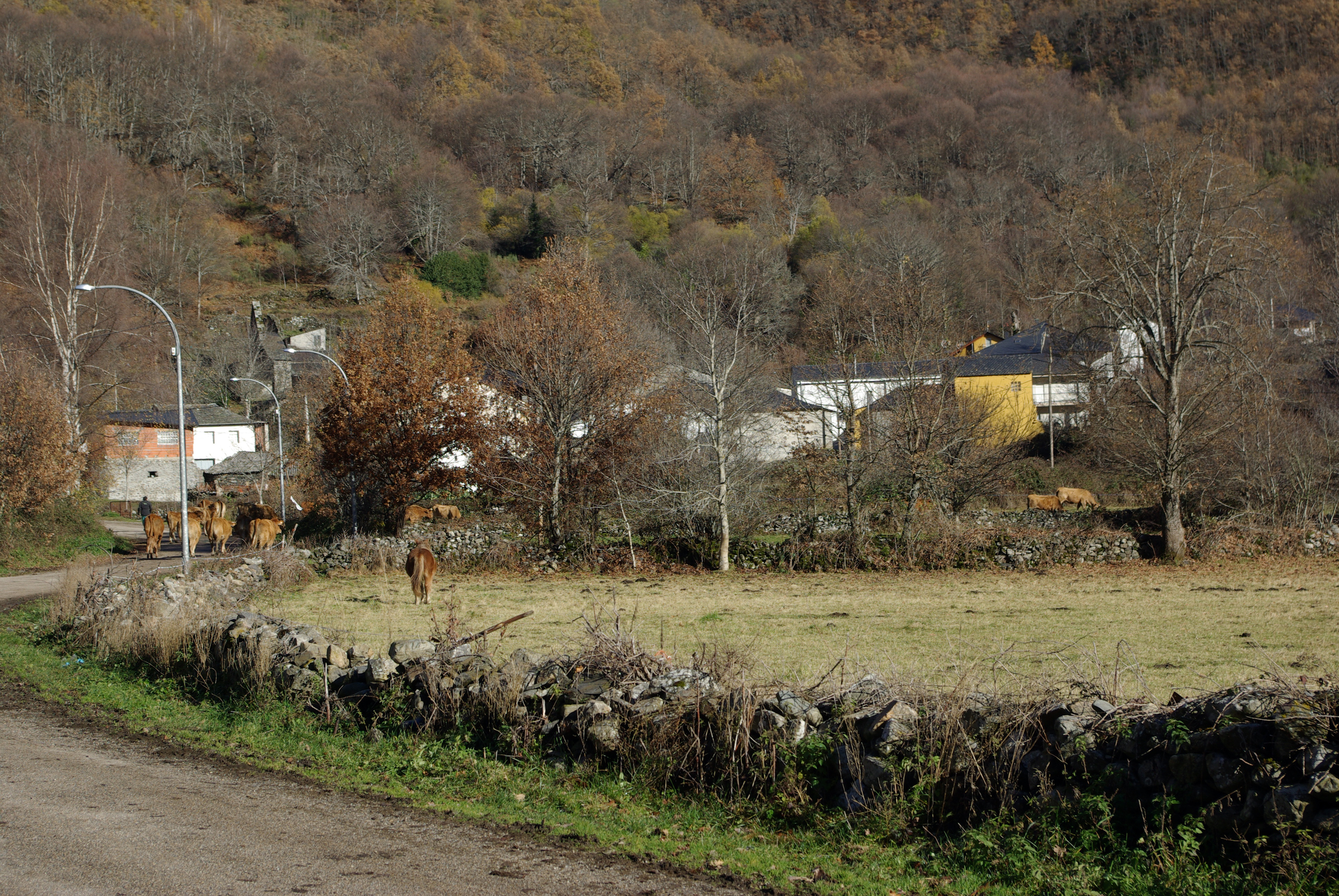 Tejedo de Ancares (Candín, León, Spain)